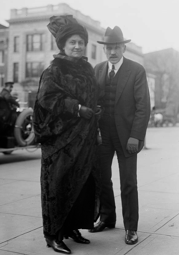 Italian educationist Maria Montessori (1870-1952) with American journalist Samuel Sidney McClure (1857–1949)